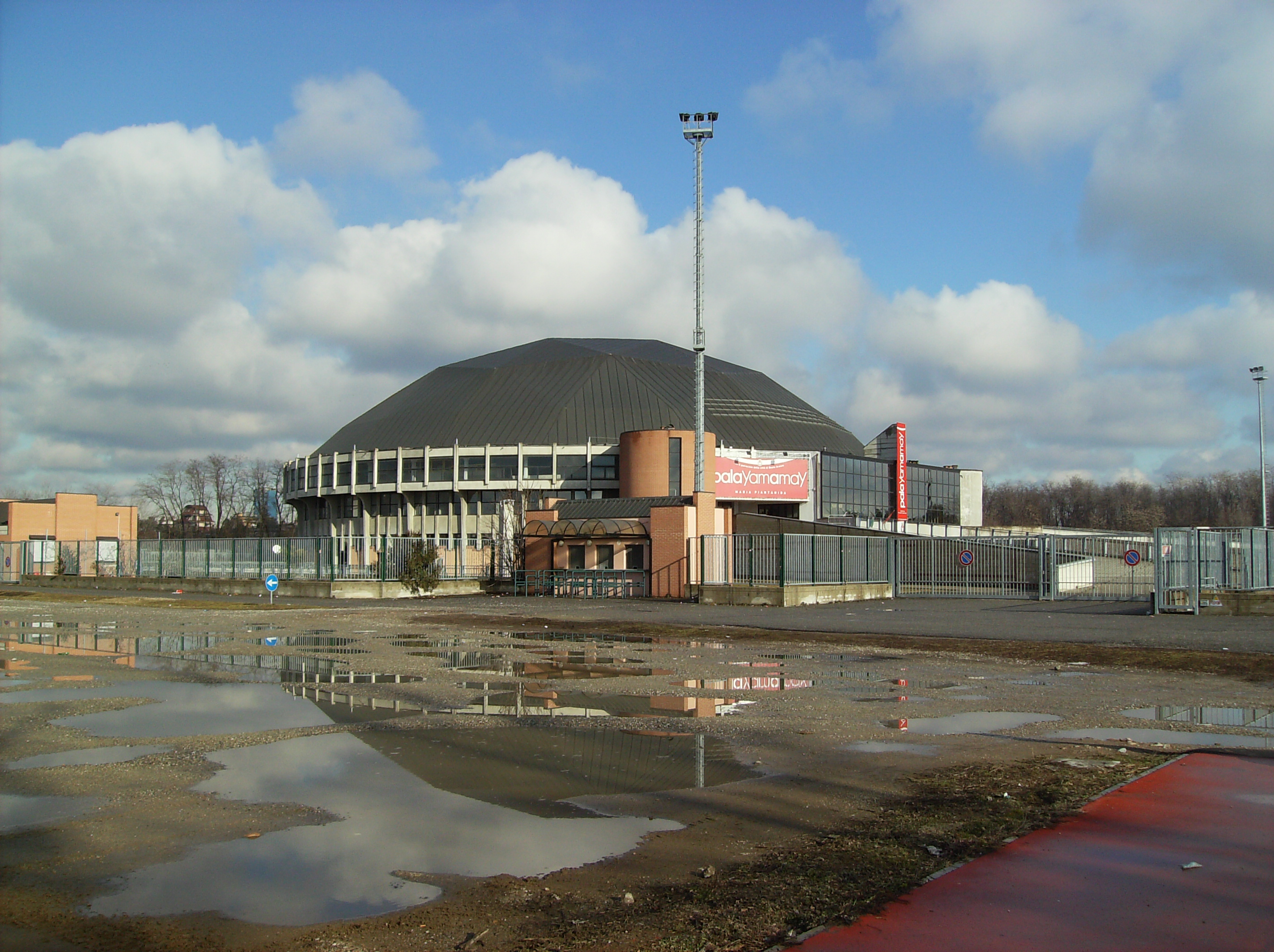 PalaPiantanida, Busto Arsizio